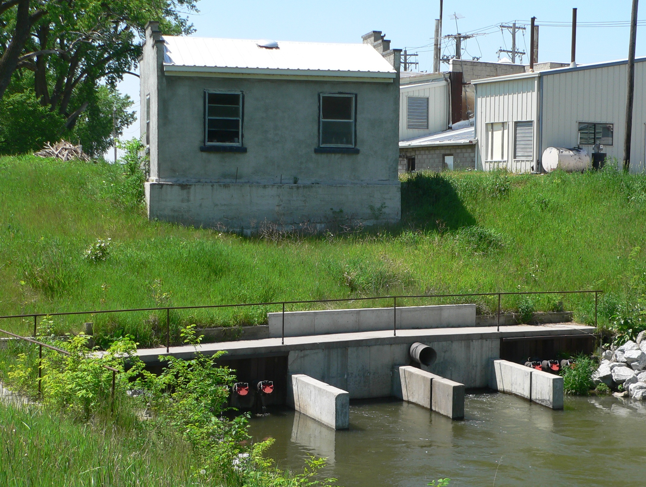 Wheel house and tailrace at Spalding Power Plant and Dam complex in Spalding, Nebraska; seen looking west (upstream). Water is diverted from the Cedar River into a headrace; passes through a hydroelectric generator in the wheel house; and returns to the river via the tailrace. The complex is listed in the National Register of Historic Places. The wheel house was built in 1913.